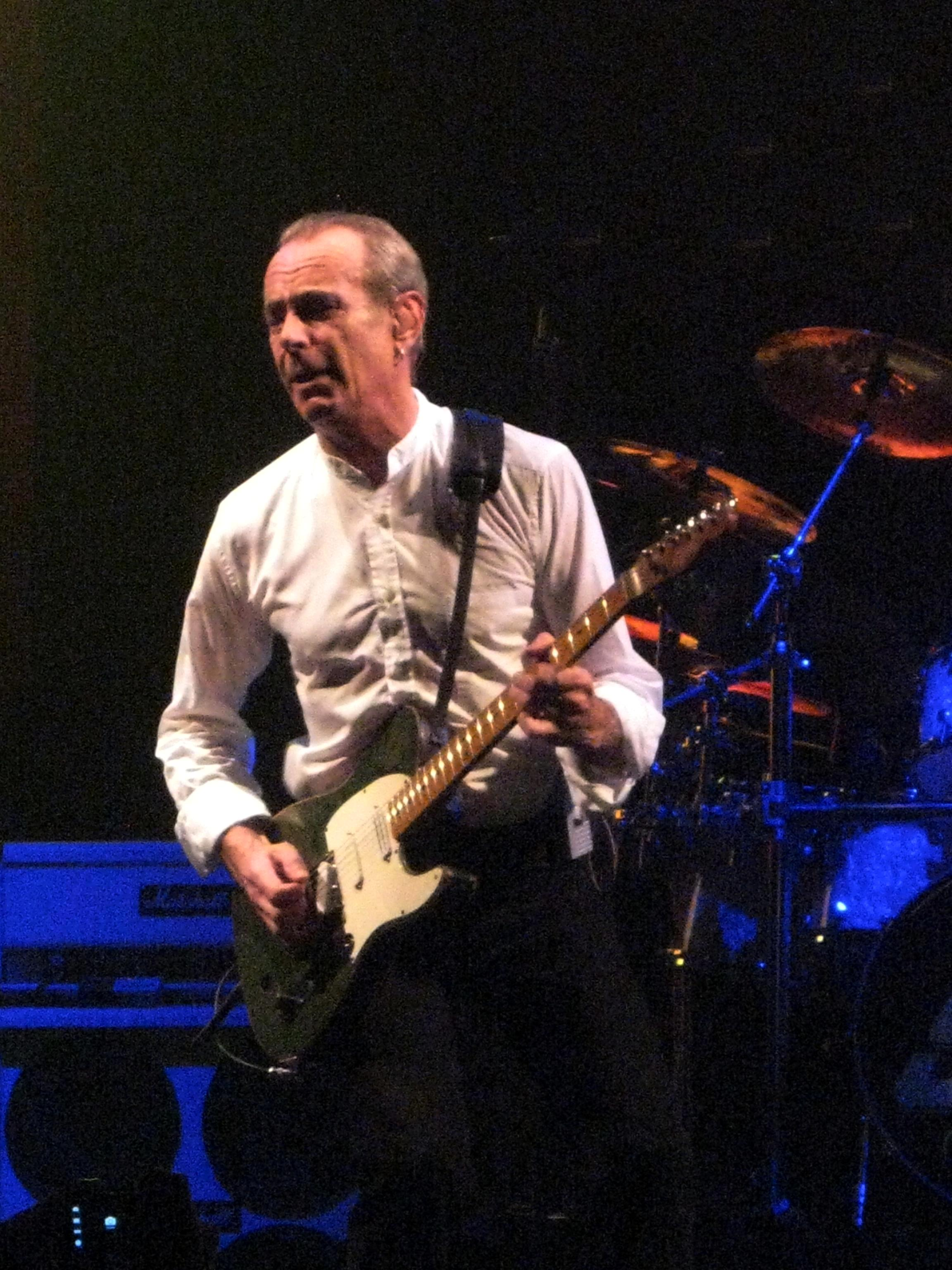 Francis Rossi - Status Quo - performing in Cardiff